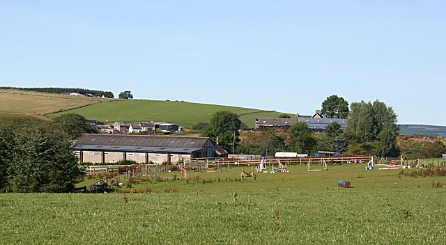 Boharm This part of Boharm is good farmland. The nearest farm is Knockandhu, which is now a riding school. Beyond and to the right is Dinnyhorn, and the farm visible above the roof of Knockandhu is Auchmadies. Coldhome is on the skyline.